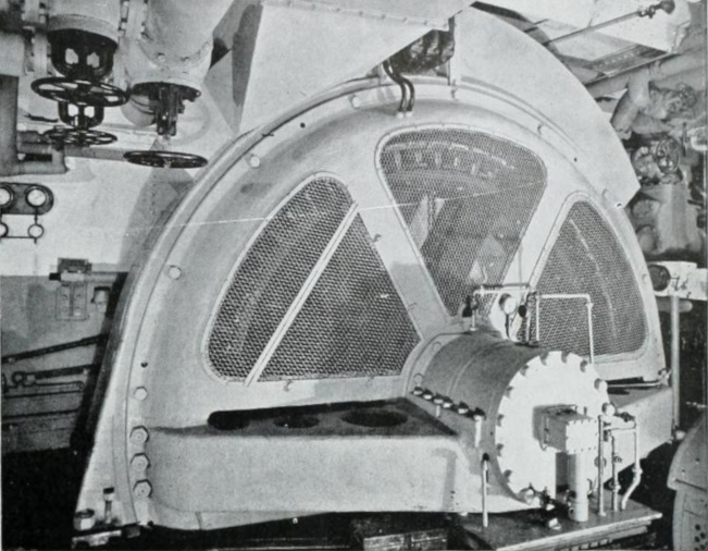 3000 h.p., 1,150 volt, 1,180 ampere electric main propulsion motor installed in first turbo-electric passenger ship "Cuba".